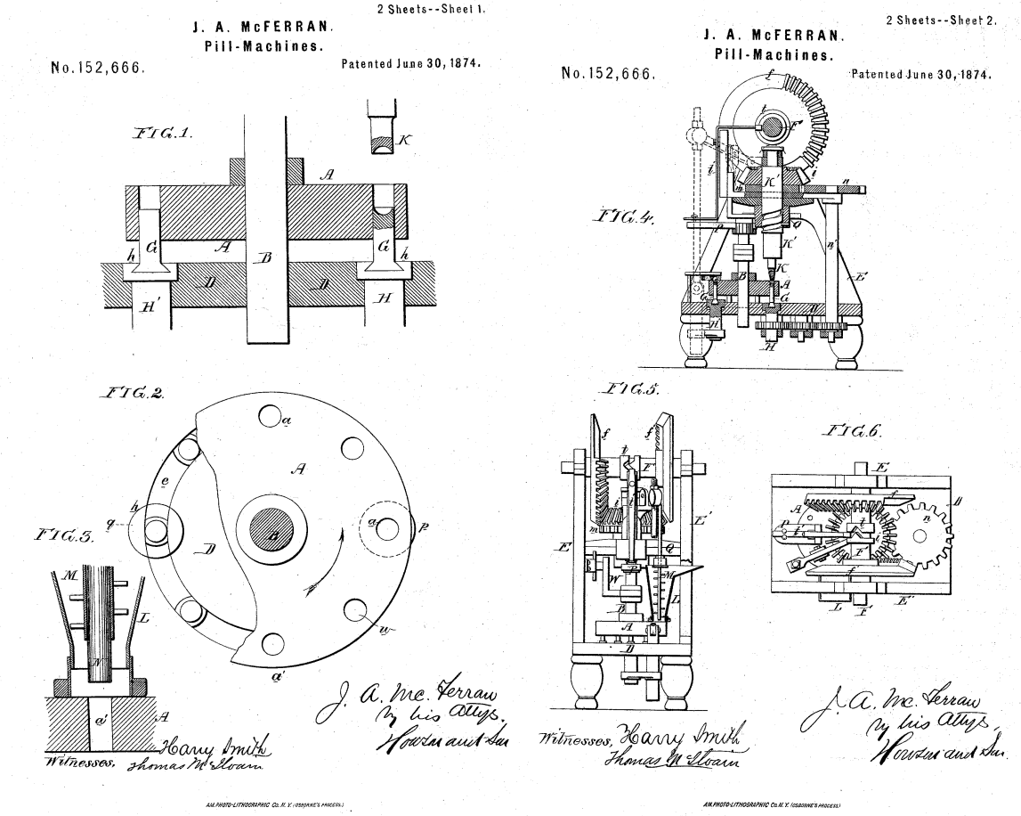 Joseph A. McFerran - 'Improvement in pill-machines' - US patent No 152,666